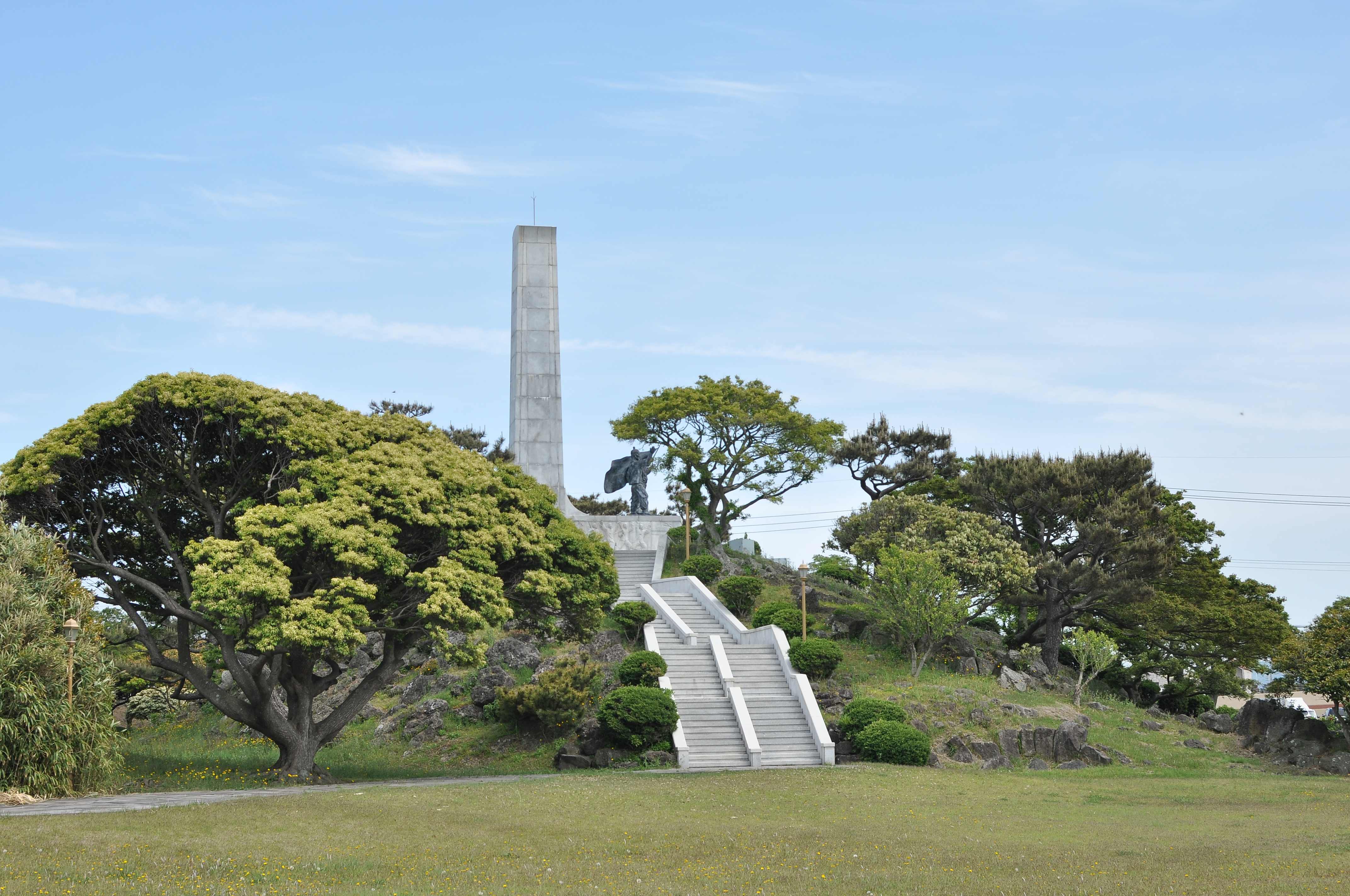 Jocheon Mase Dongsan, the site of 1919 March 1st movement at Jeju-do